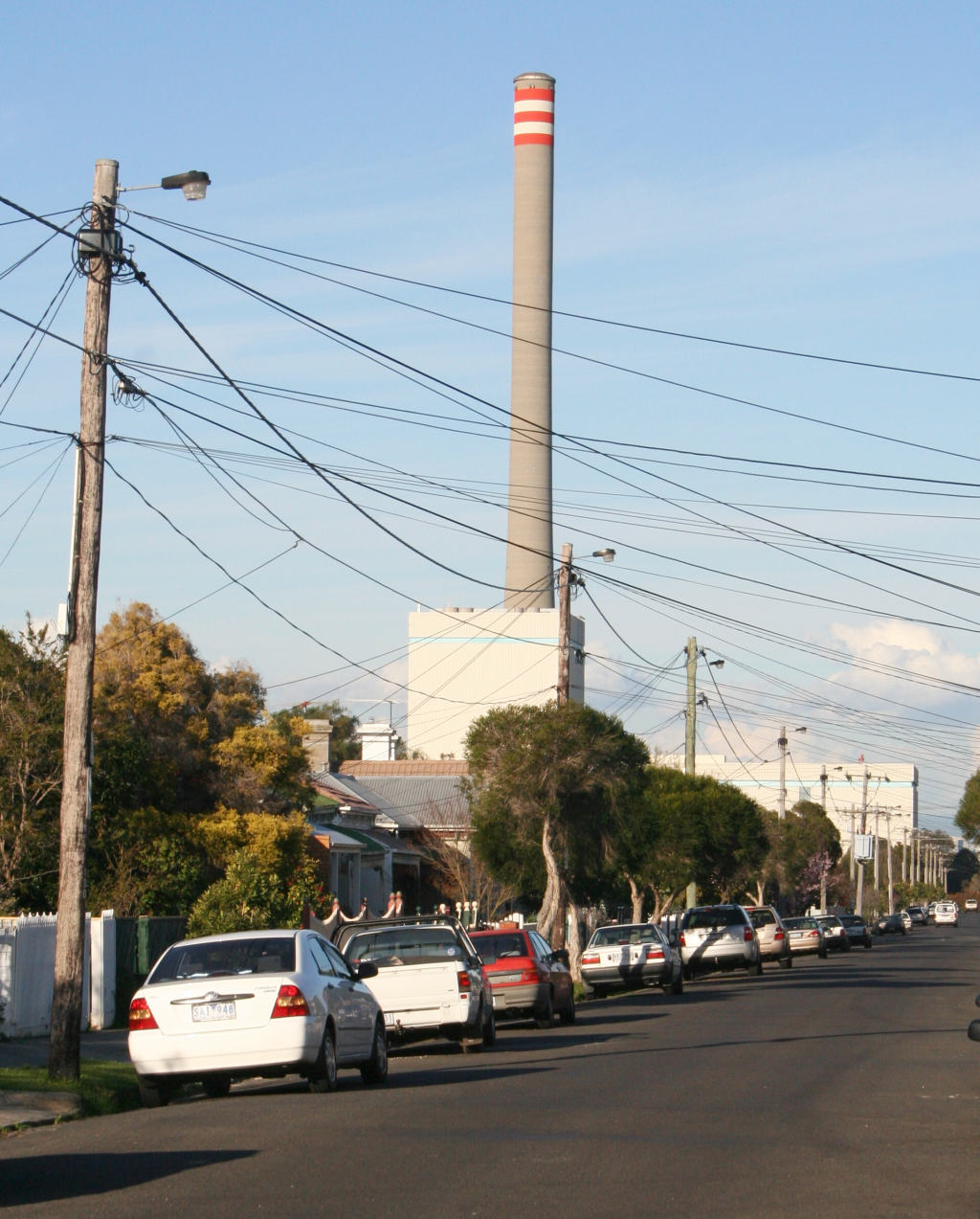 Newport Power Station - Newport, Victoria, Australia